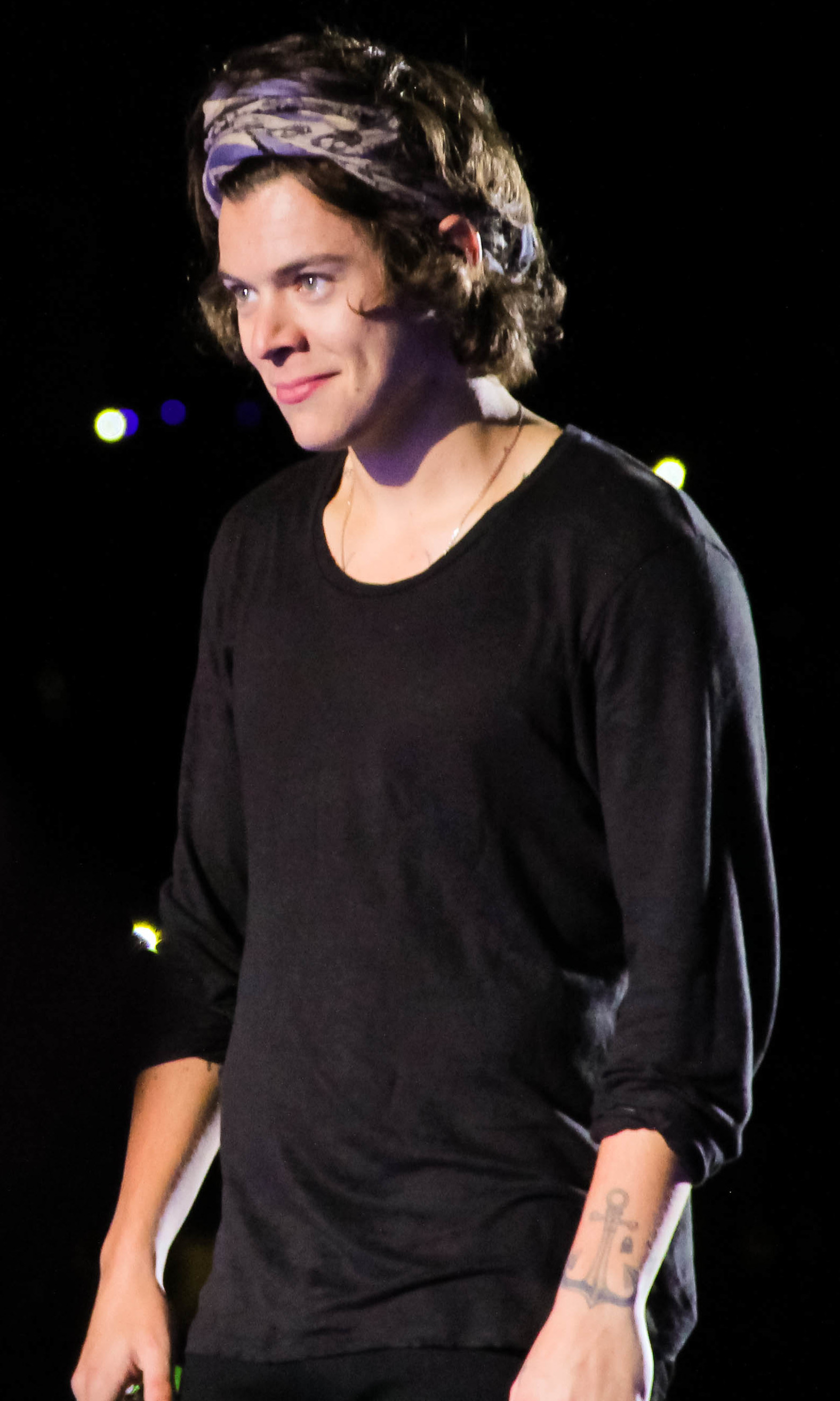 Harry Styles in concert (WWAT 2014) - Chile